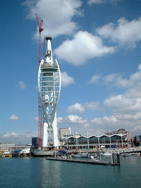 Spinnaker Tower - Portsmouth